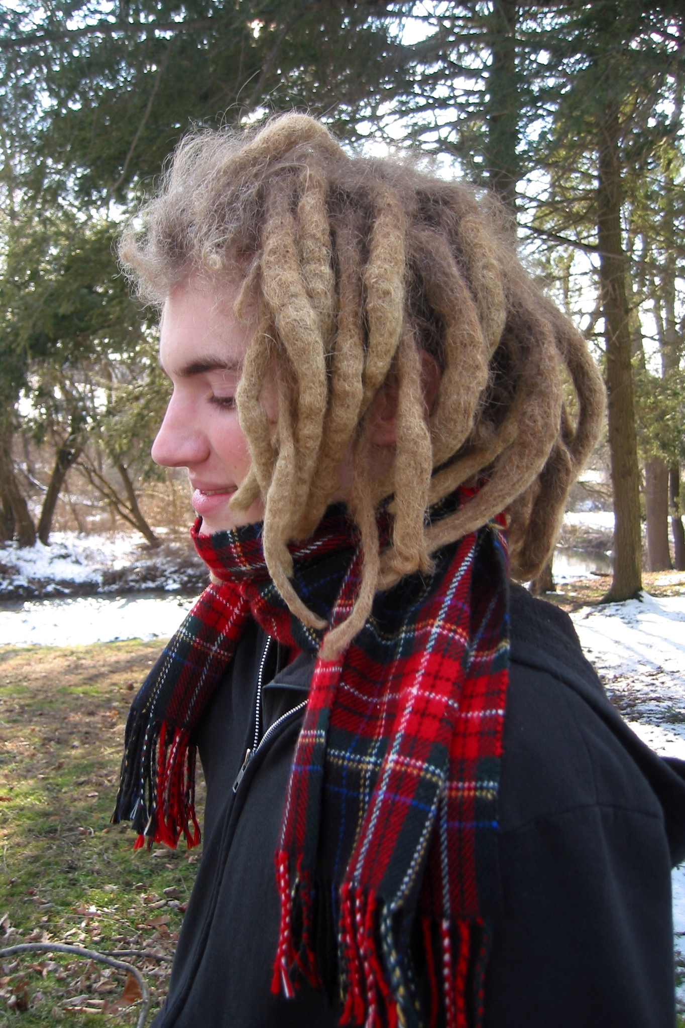 Dreadlocks